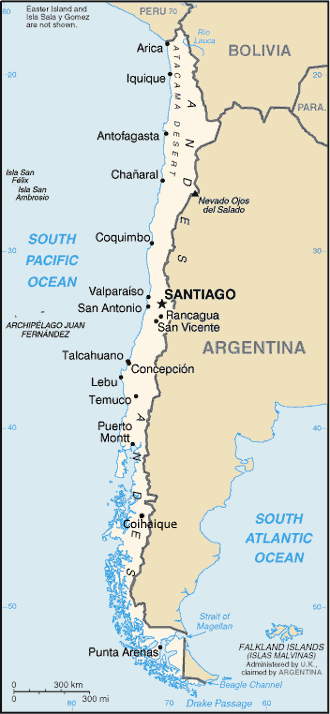 A map of Chile, showing major cities.